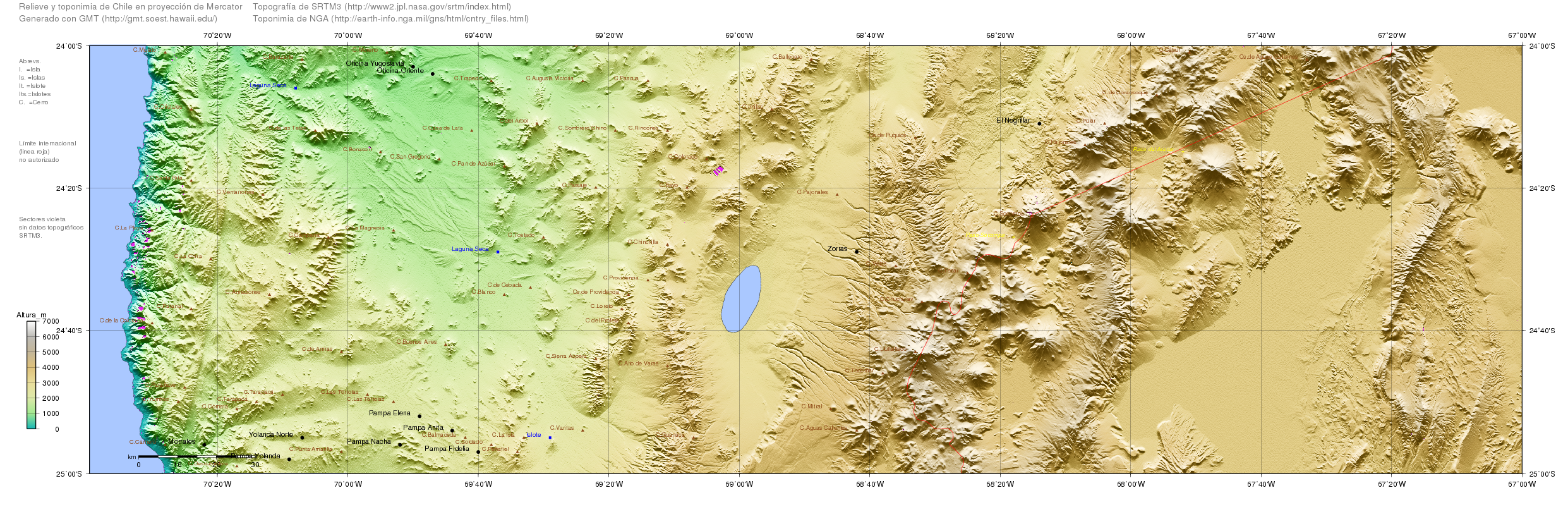 Map of Chile generated with GMT ( topography from SRTM ftp://e0srp01u.ecs.nasa.gov/srtm/version2/SRTM3/ and toponymy from